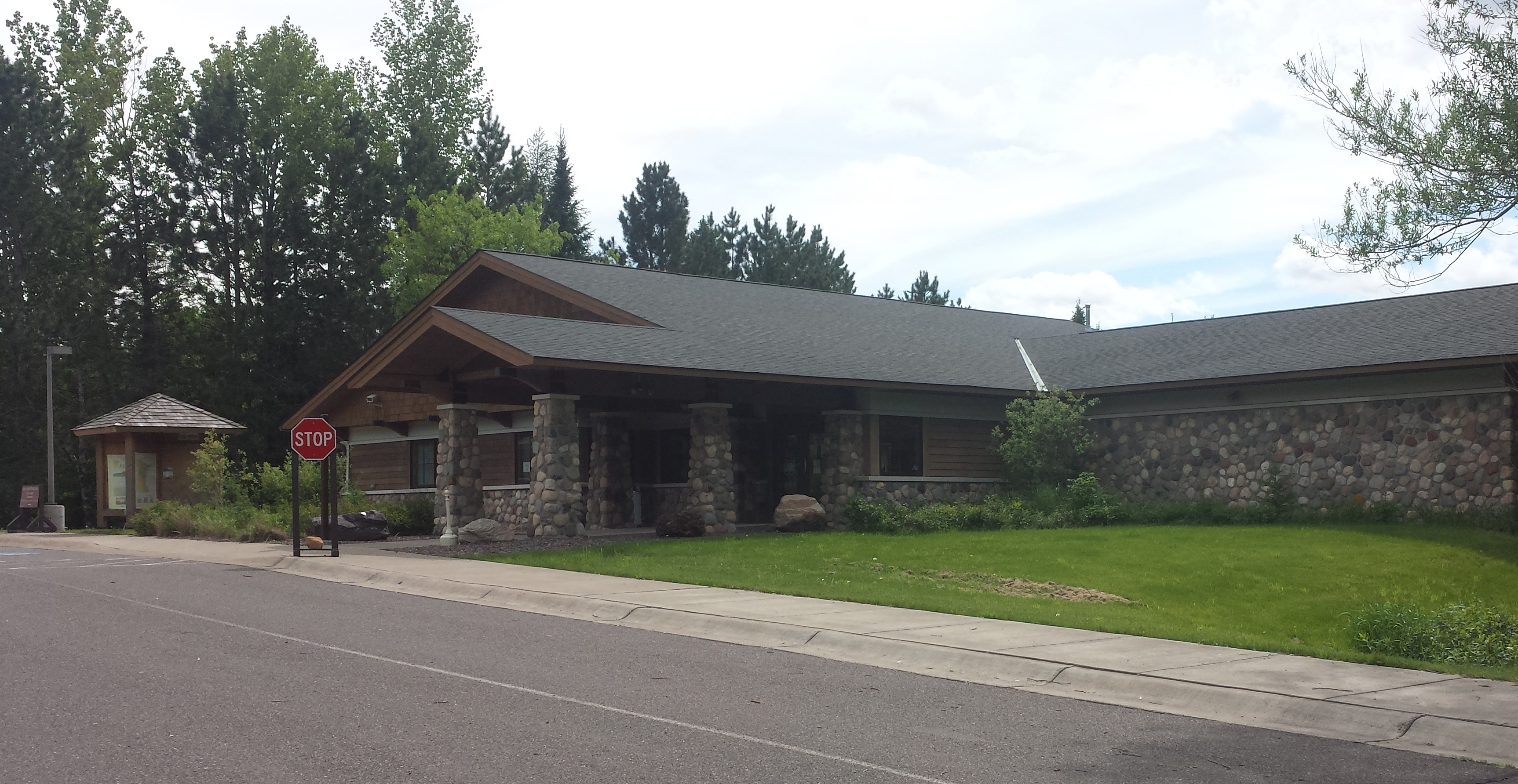 Moose Lake State Park Office